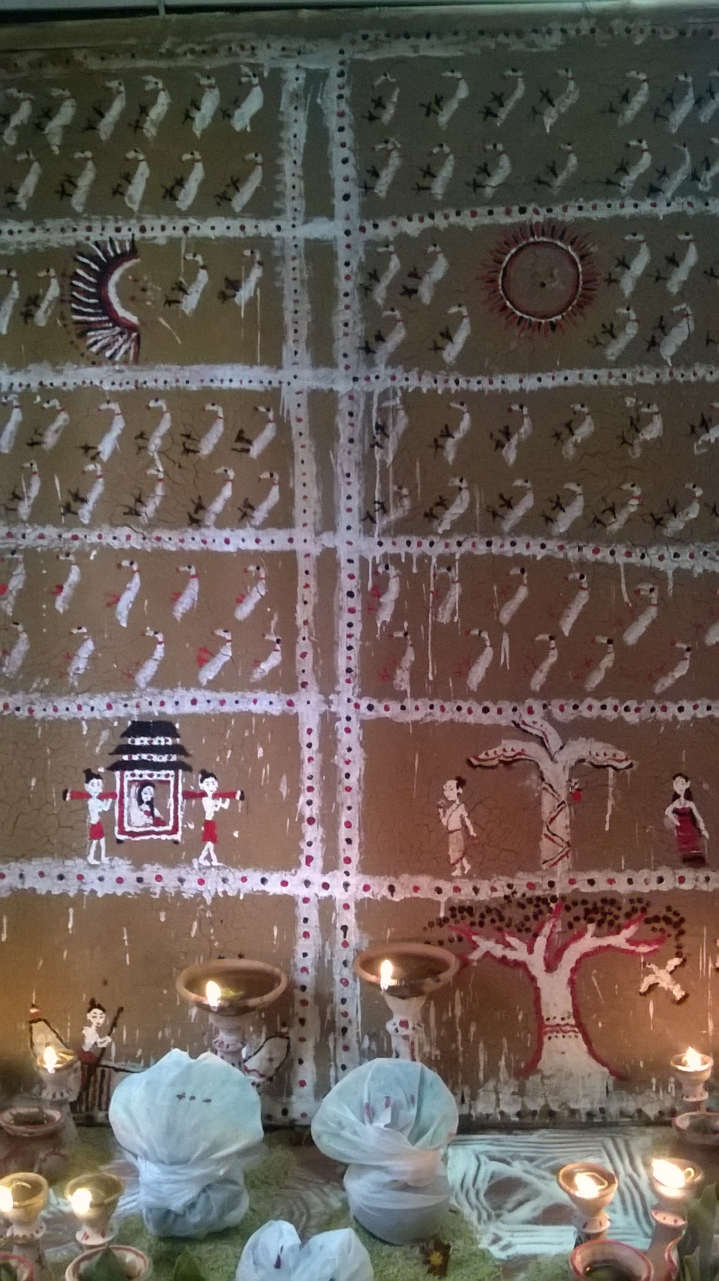 Bira-Pat Chita_Traditional Hajong Art